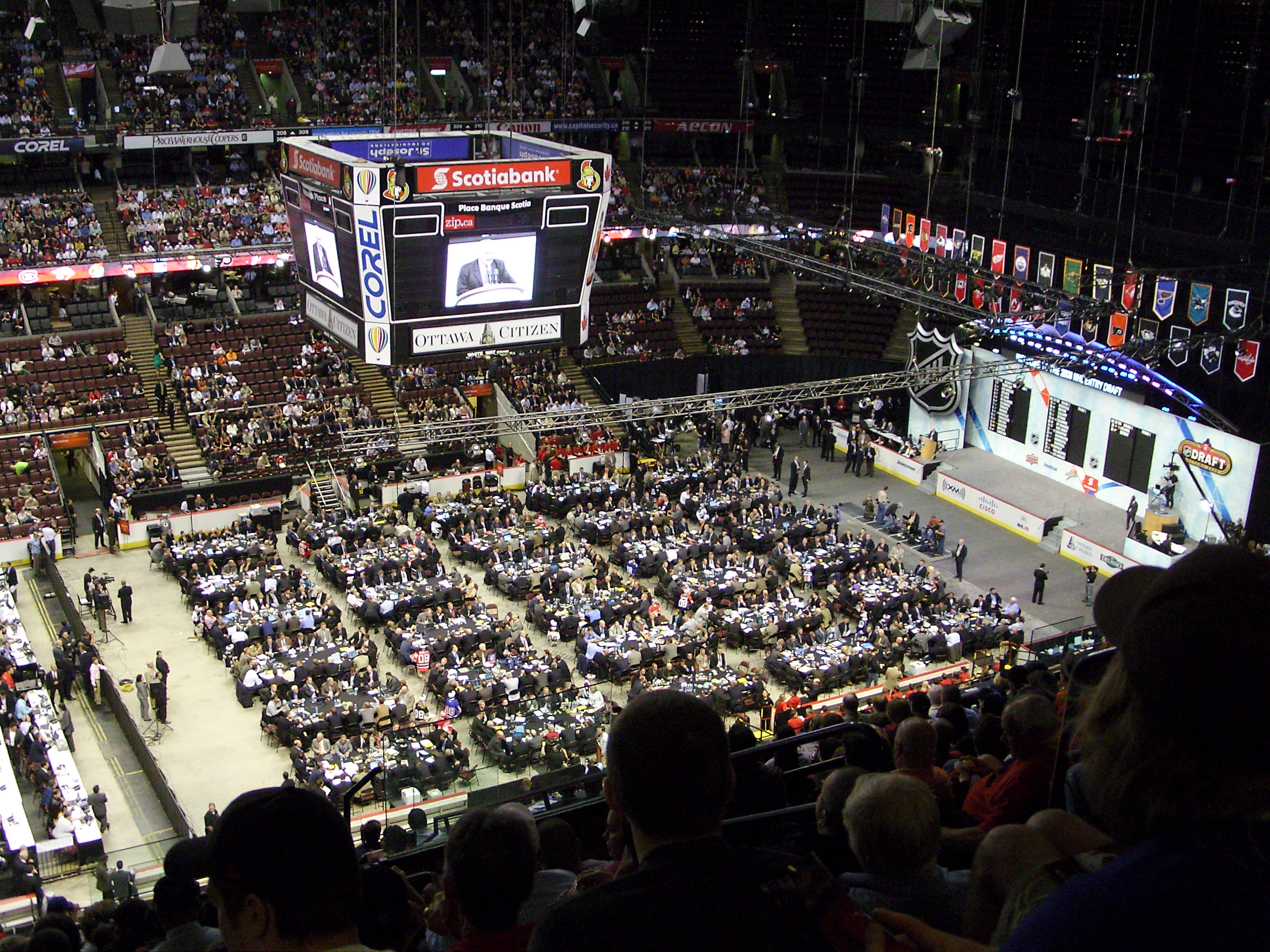 Photograph of draft stage and team tables.